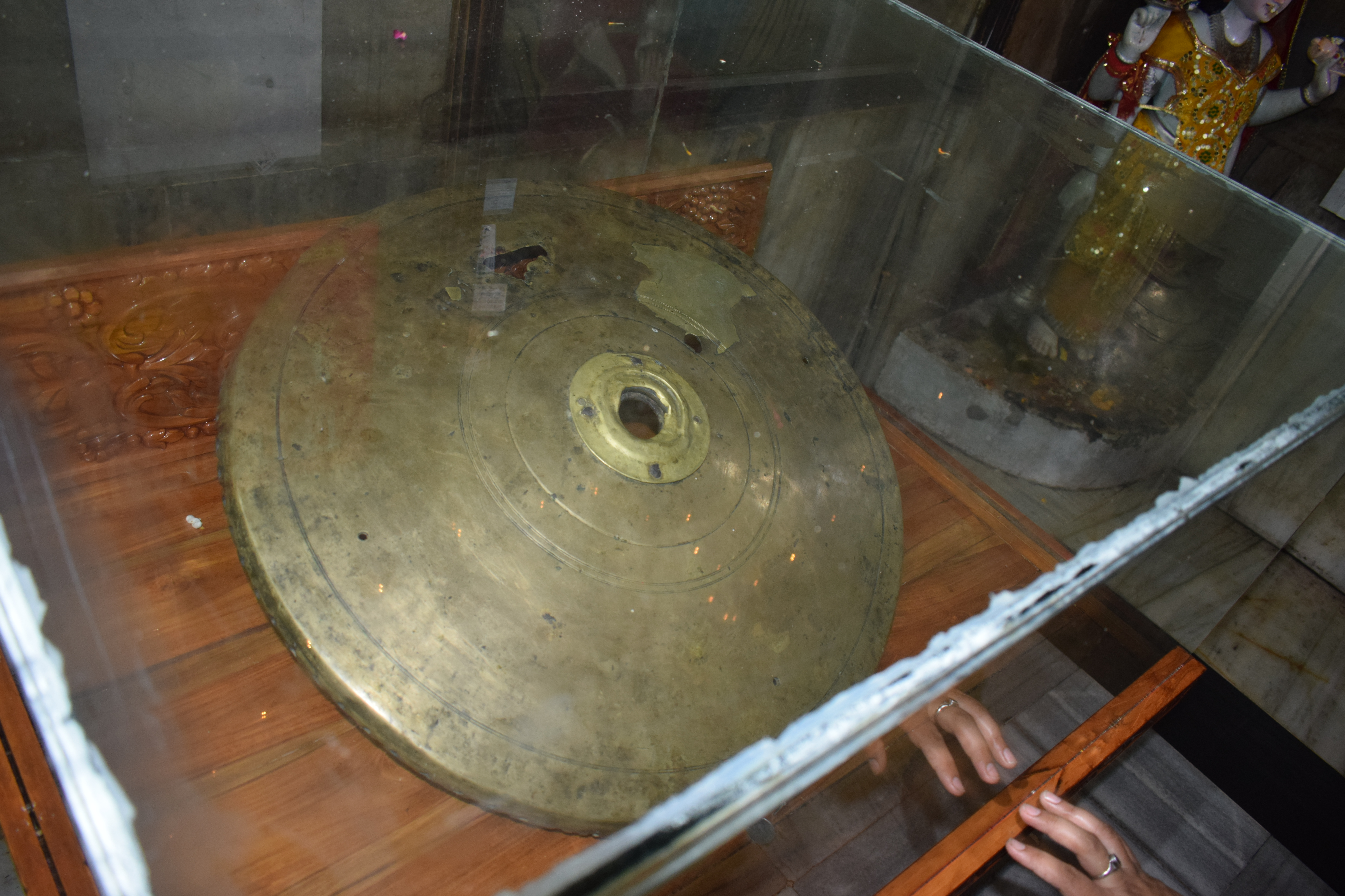 Golden Parasol (chattar) presented by Akbar at the shrine